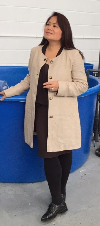 Saiphin Moore at an aquaponic farm in London being interviewed about sustainability in 2014.